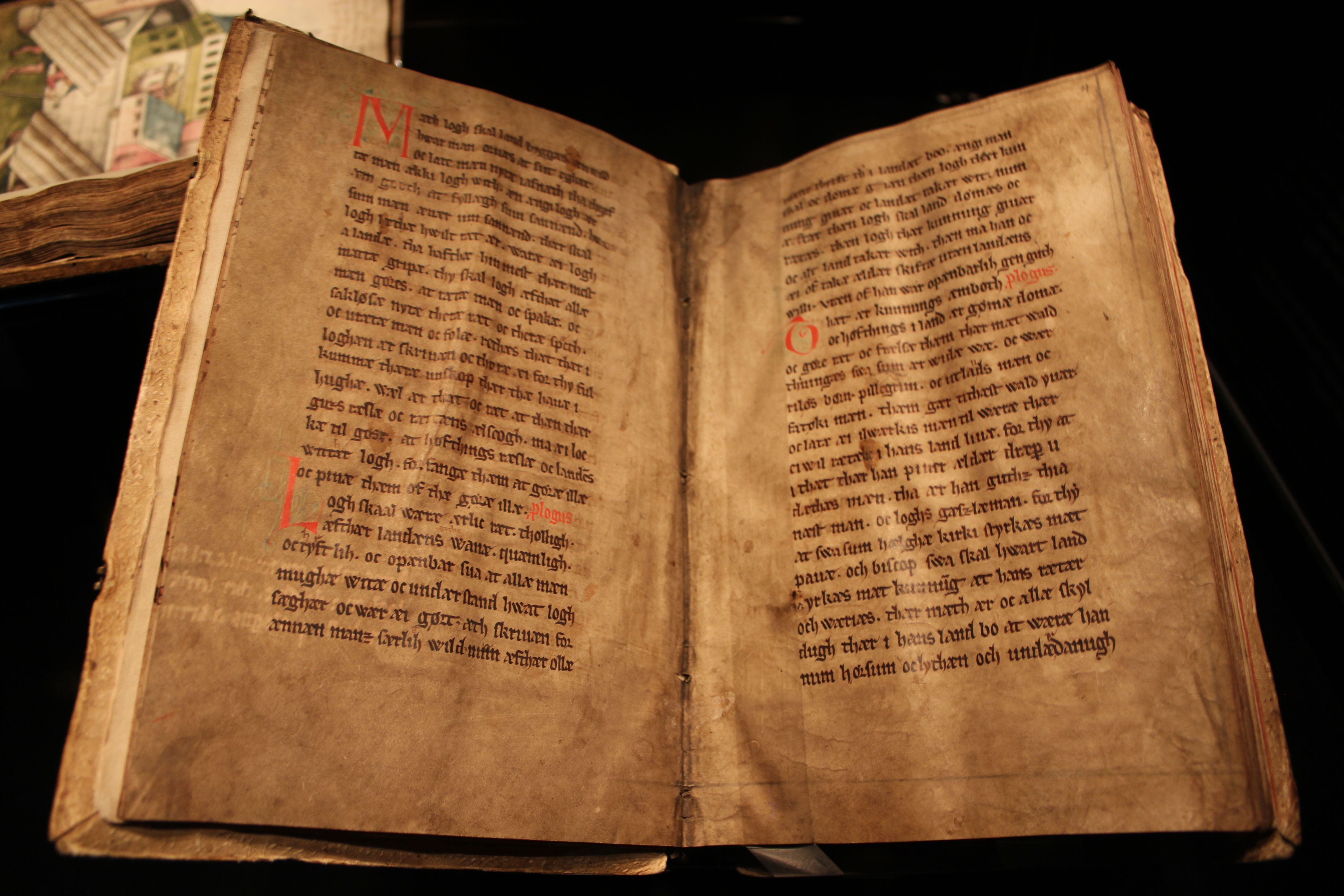 Codex Holmiensis on display at The Danish Castle Centre in Vordingborg